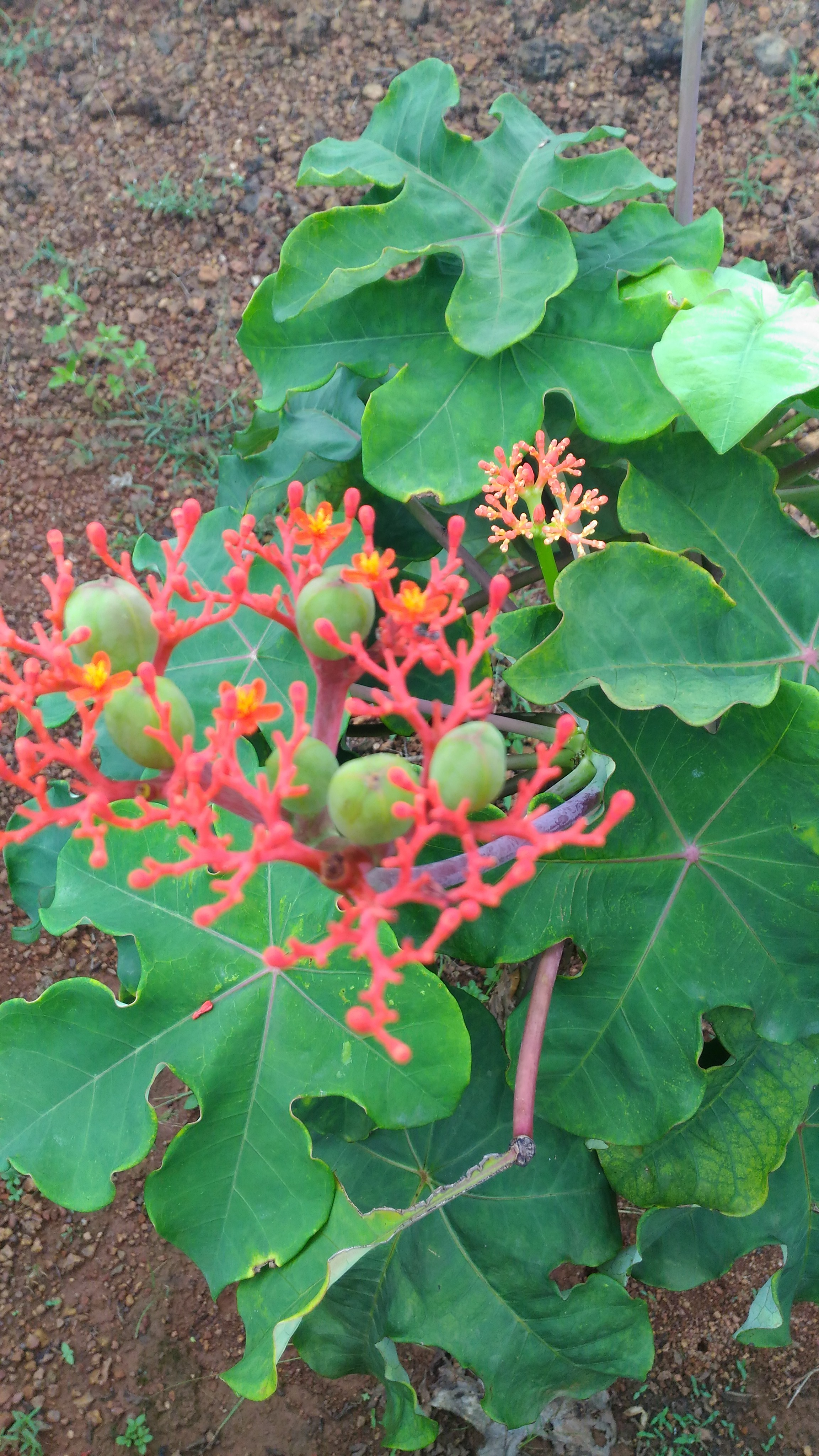 Jatropha podagrica